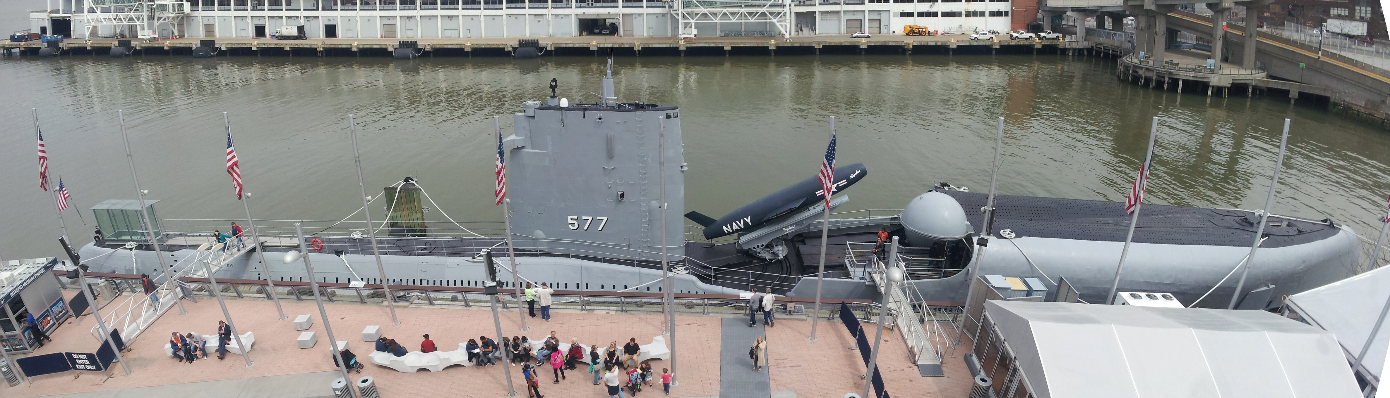 USS Growler (SSG-577), panorama from the stairway leading to the USS Intrepid.